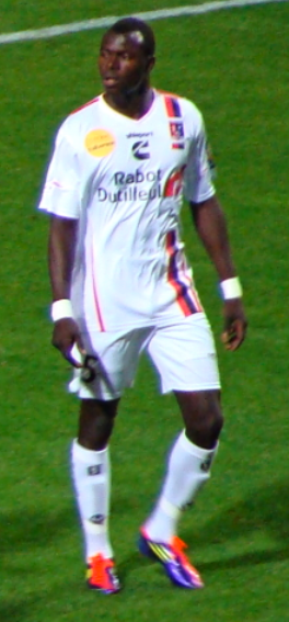 Zargo Touré (US Boulogne)